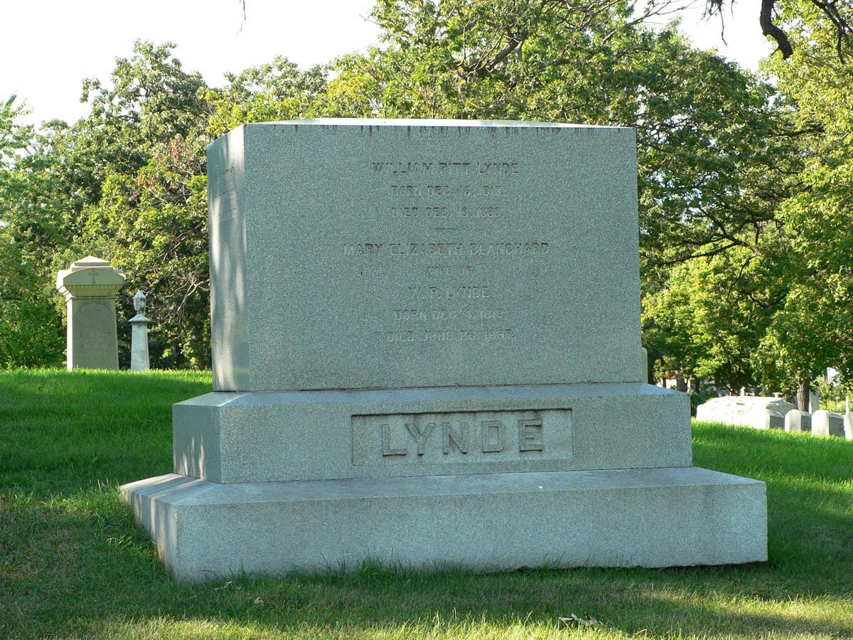 Gravesite of lawyer and politician William Lynde, located on the grounds of Forest Home Cemetery in Milwaukee, Wisconsin.